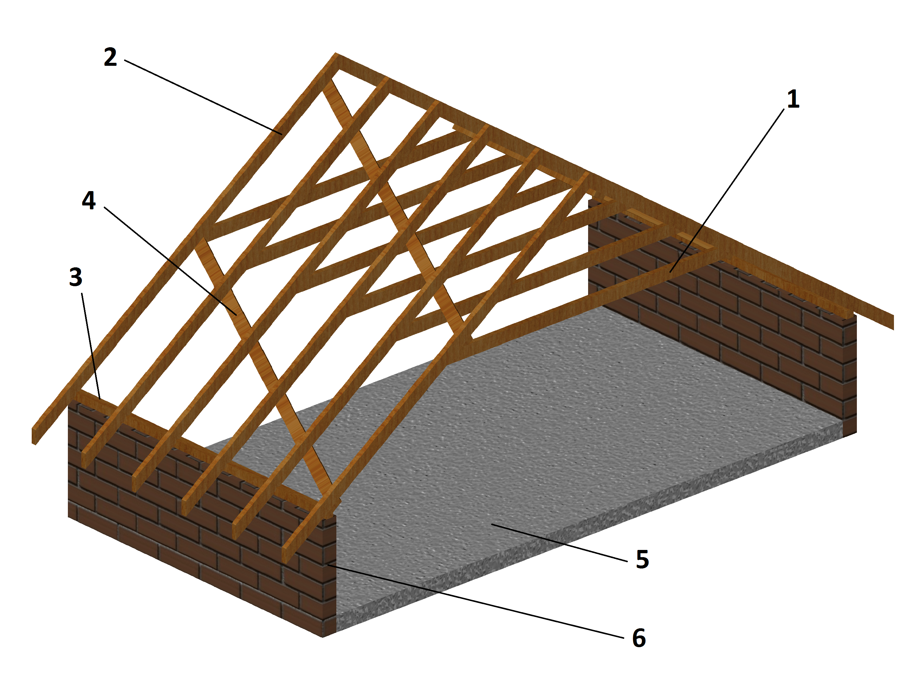 Collar beam roof framing